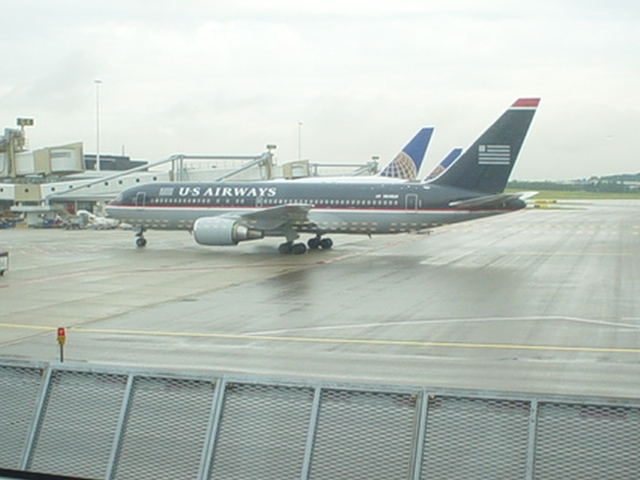 KLM aircrafts at Schiphol